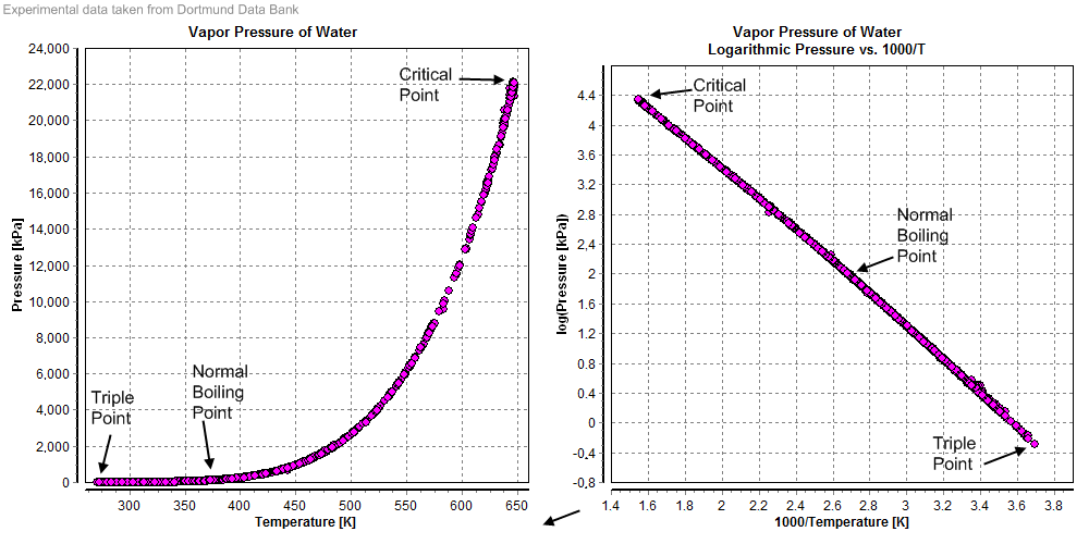 Vapor pressure diagram of Water - Experimental data taken from Dortmund Data Bank